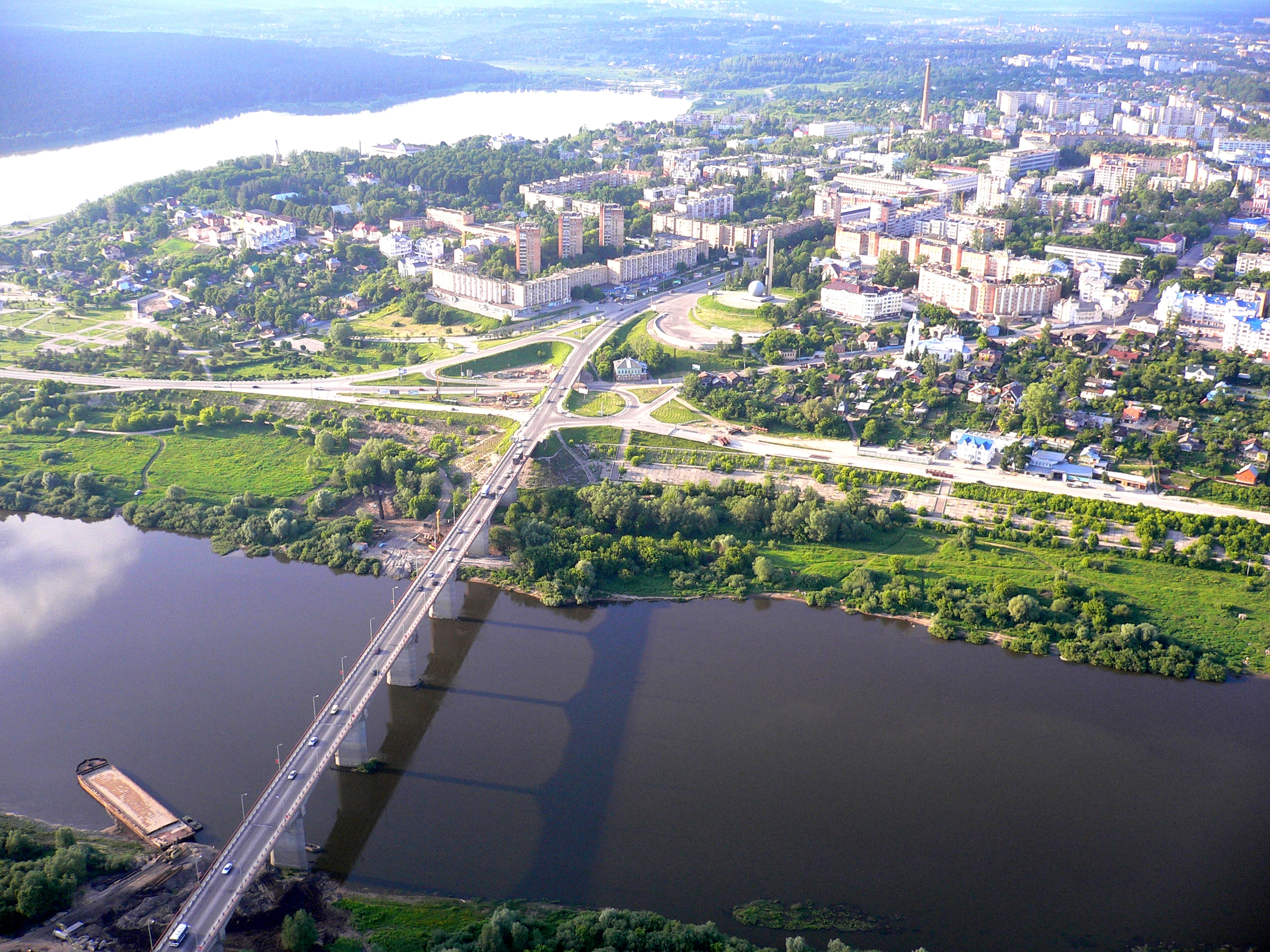 Kaluga from the height of bird flight